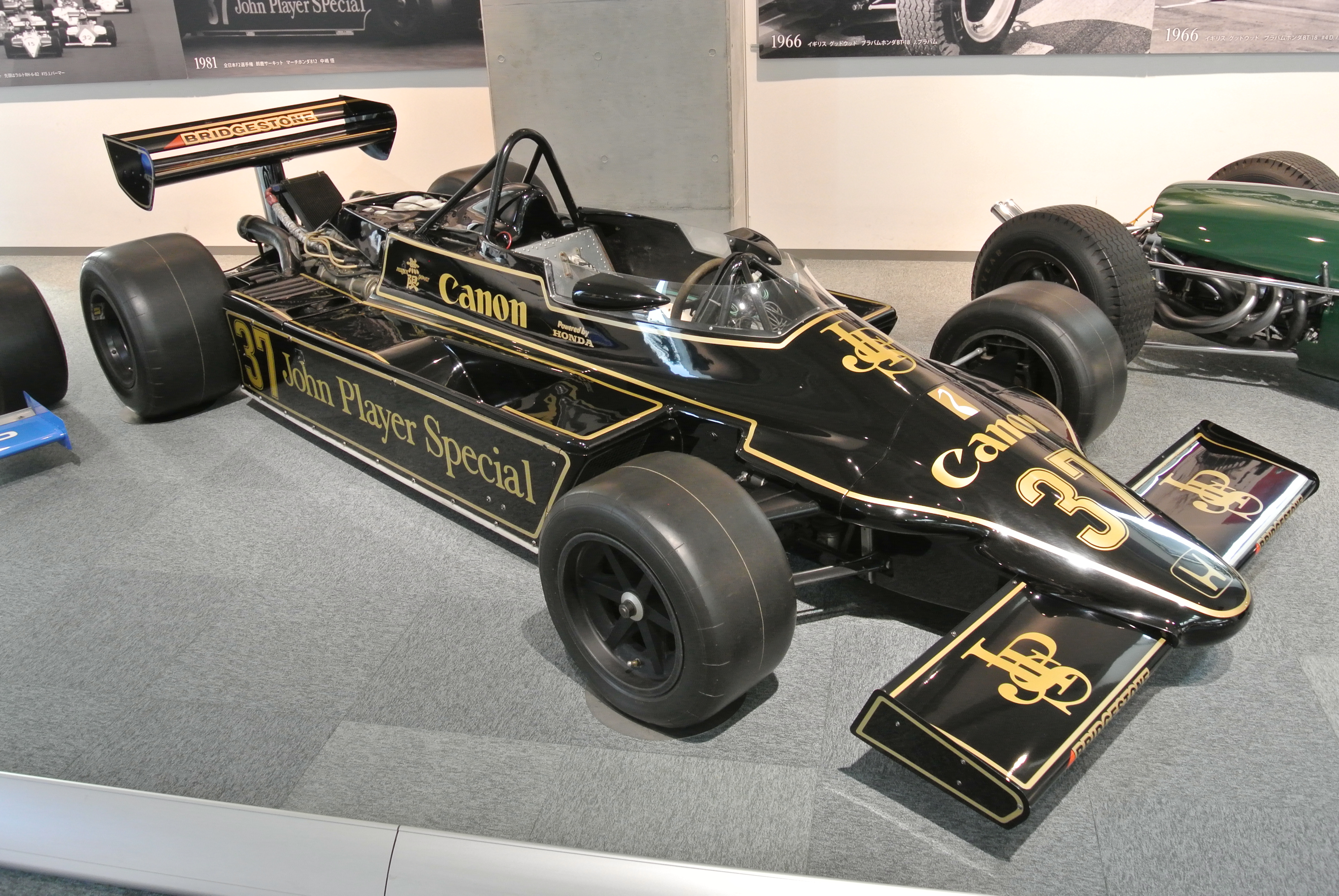 1982 March Honda 812 (#37 Satoru Nakajima) in the Honda Collection hall.